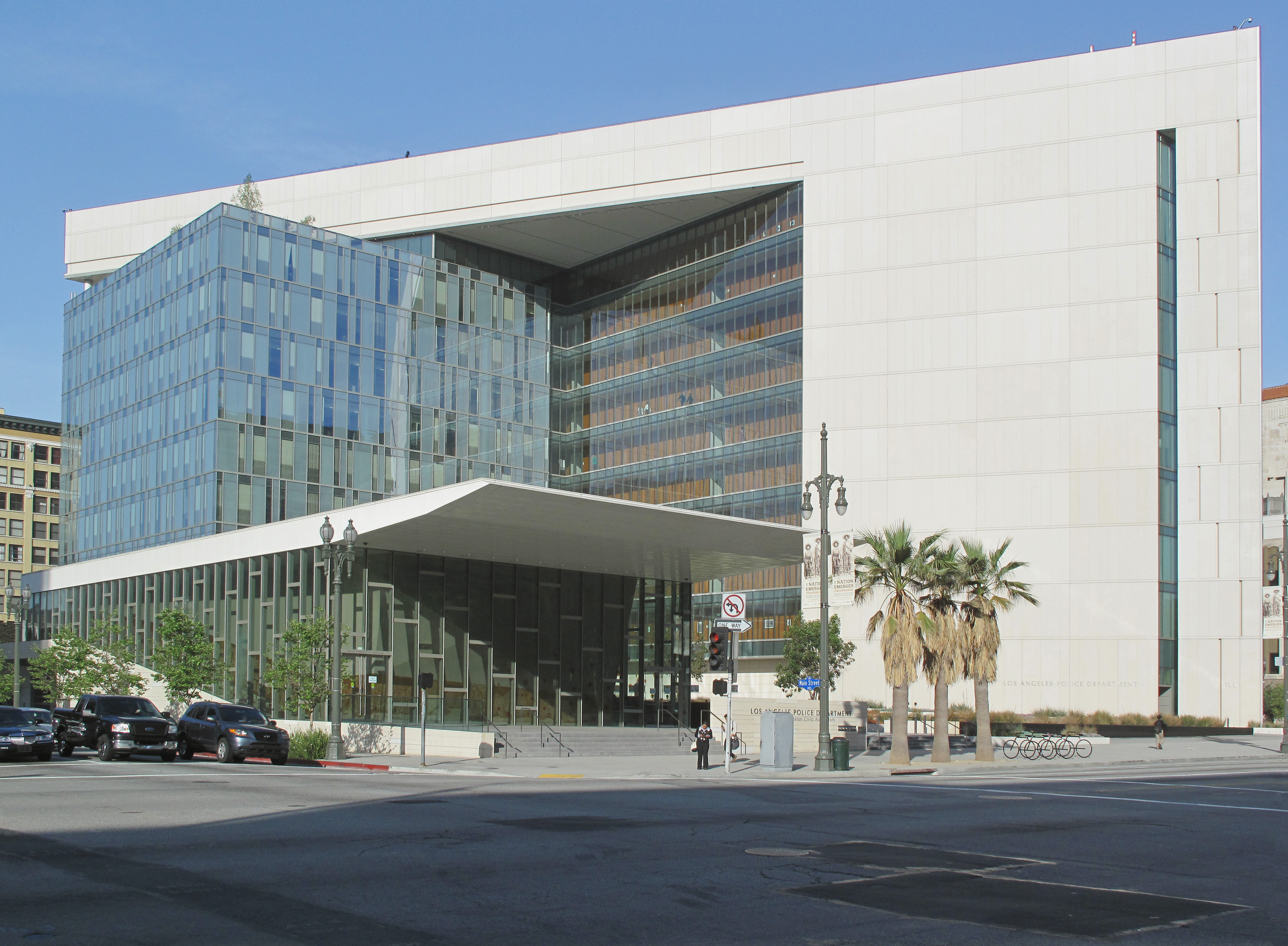 The new headquarters of the Los Angeles Police Department, in downtown Los Angeles. It was completed in 2009.